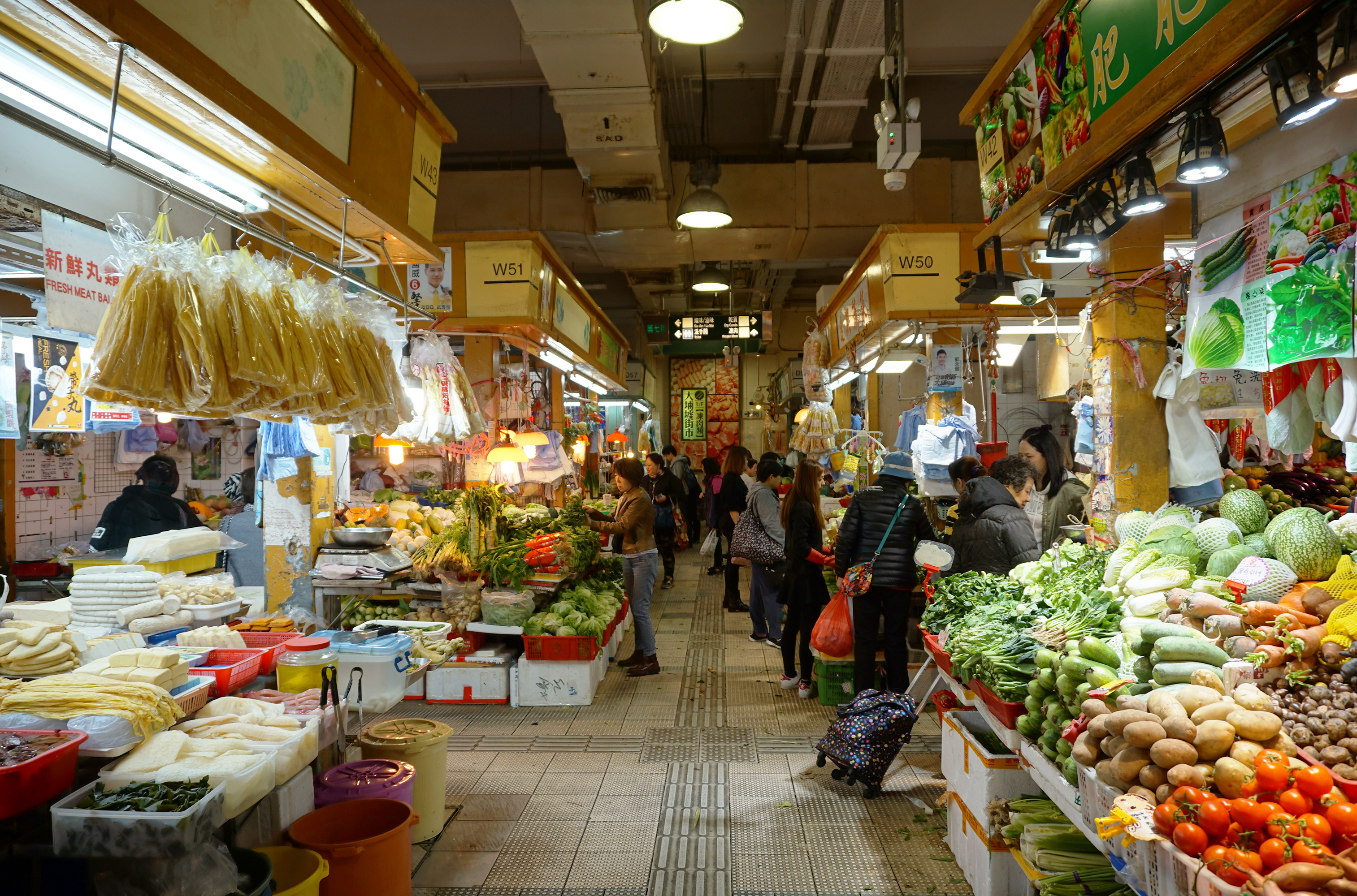 Tai Po Hui Market in Tai Po, Hong Kong.